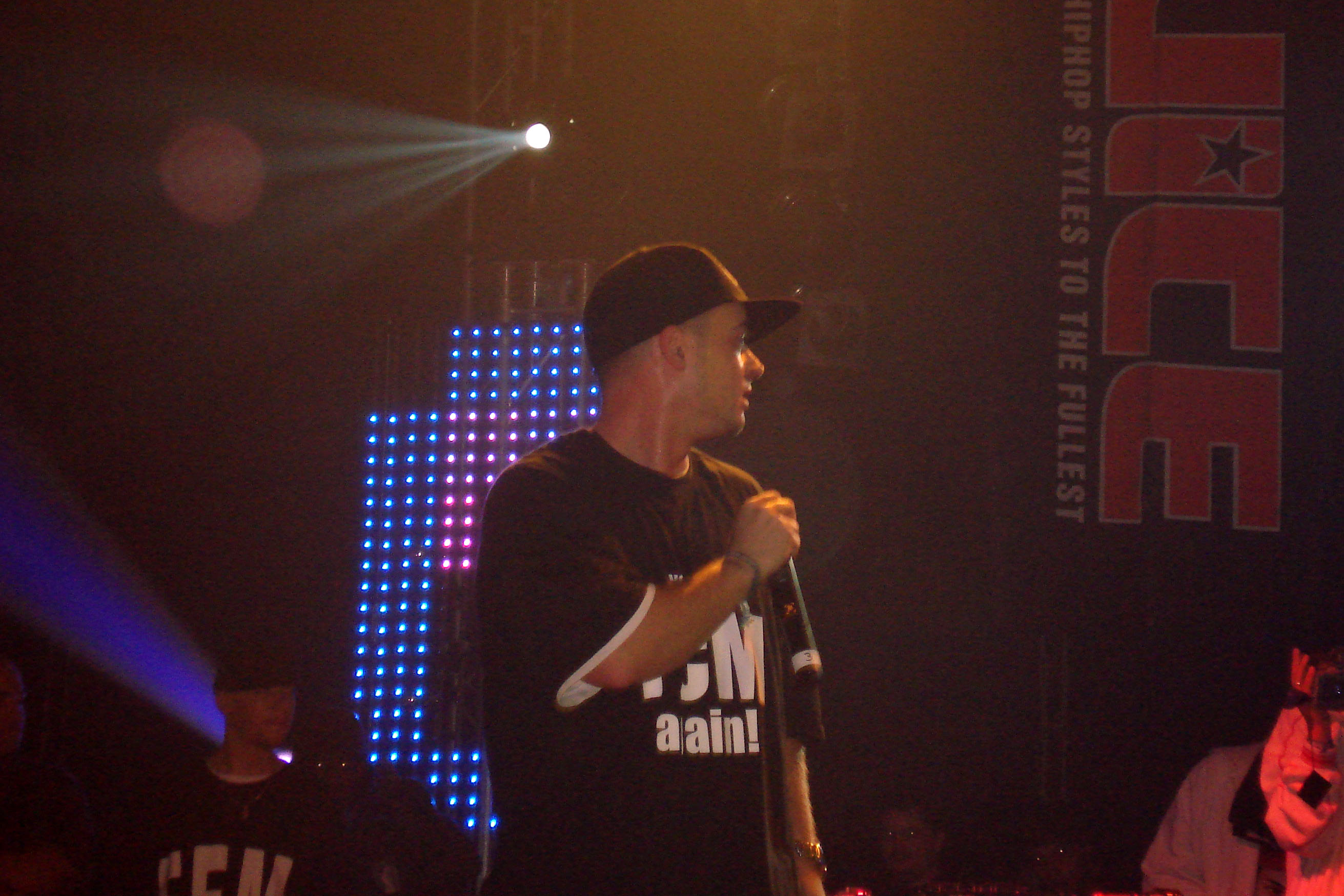 Tefla of "Tefla und Jaleel"